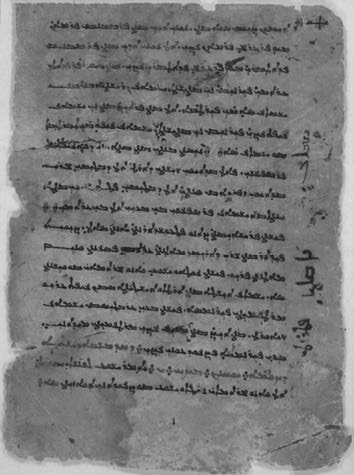 Front of a page from an East Syriac lectionary (Luke 16) from the Sogdian Turfan Psalter found in Bulayiq, north of the Turfan oasis (ninth/tenth century).